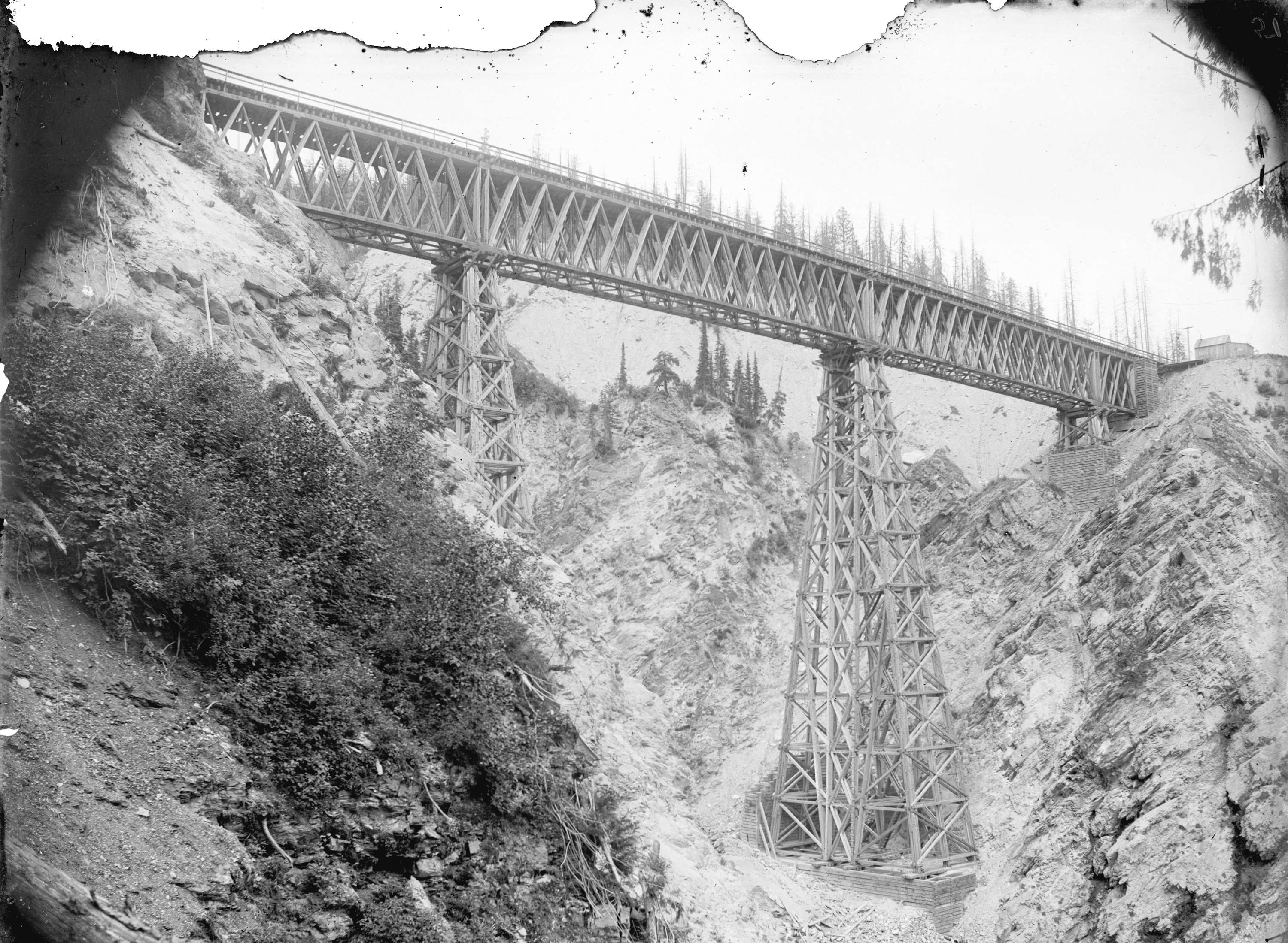 First Stoney Creek Bridge made of wood, Selkirks, C.P.R. (build 1885 and replaced 1893 with second bridge made of steel)